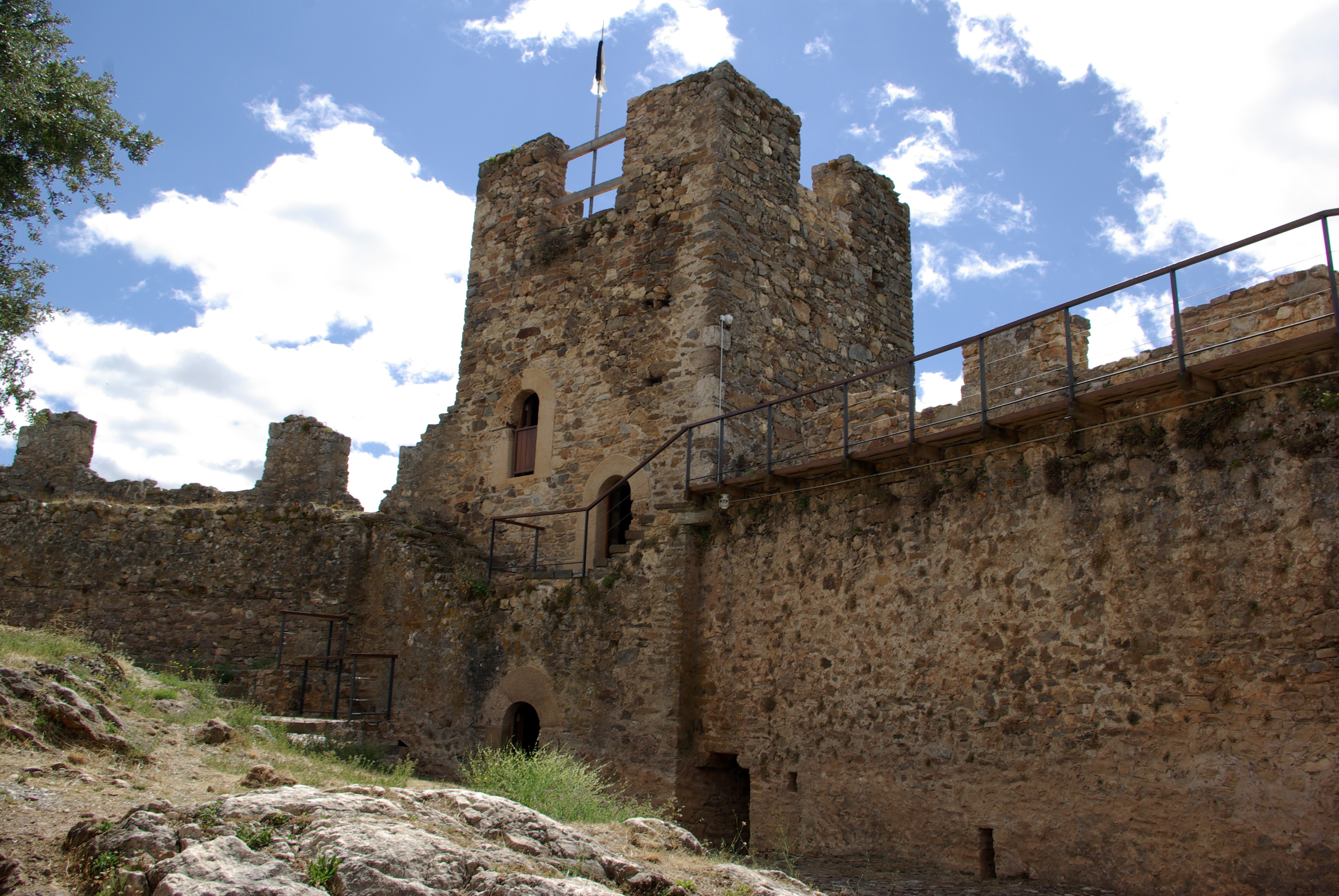 Castle of Cornatel, Priaranza del Bierzo (León, Spain)